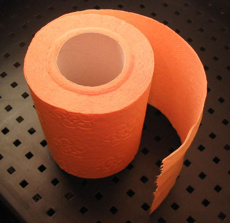 A colored oilet paper roll